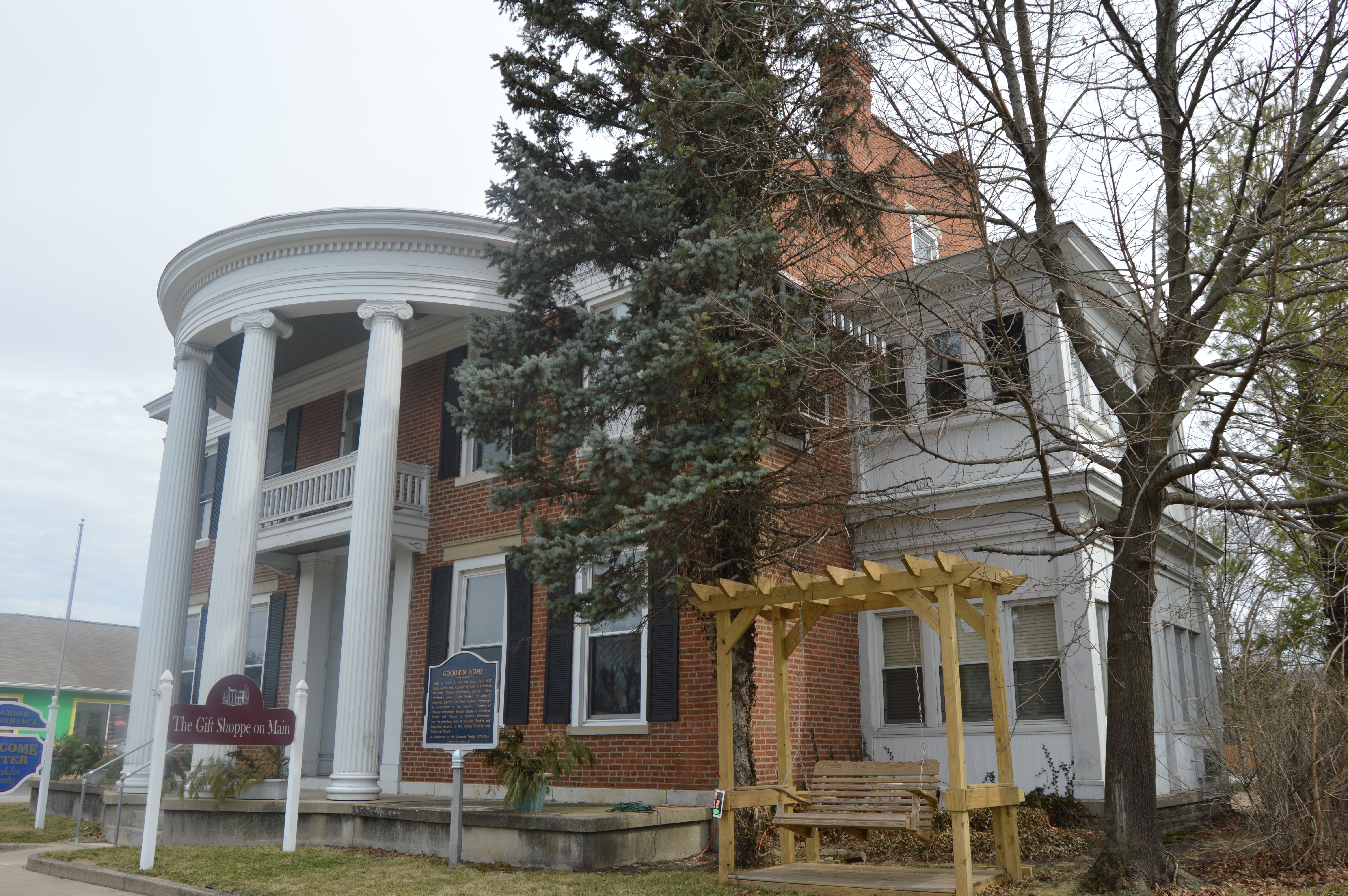 Front of the Goodwin-Farquhar House, located at 813 Main Street (U.S. Route 52/State Road 1) in Brookville, Indiana, United States. Built in 1855, once home to U.S. Representative John Hanson Farquhar, and now home to the local chamber of commerce, it is part of the Brookville Historic District (Brookville, Indiana), a historic district that is listed on the National Register of Historic Places.